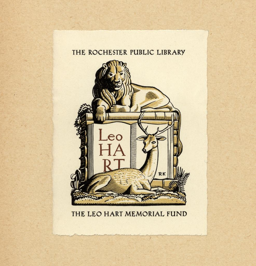 Pictorial Bookplates. Subject: Open books; Animals;. Subject - Personal Name: Hart, Leo. Subject - Corporate Name: Rochester Public Library.